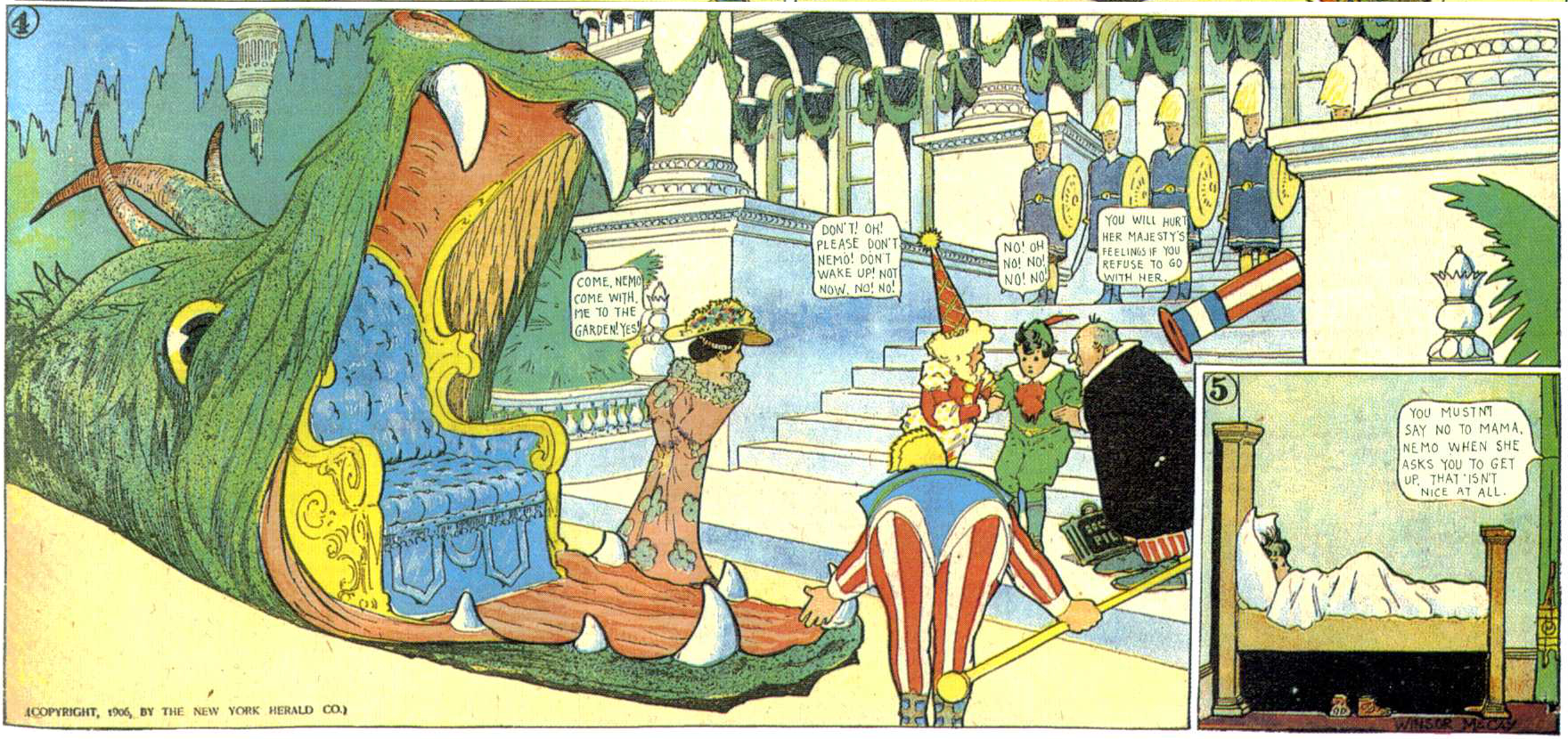 Final two panels of the 1906-07-22 episode of American cartoonist Winsor McCay's comic strip Little Nemo in Slumberland.